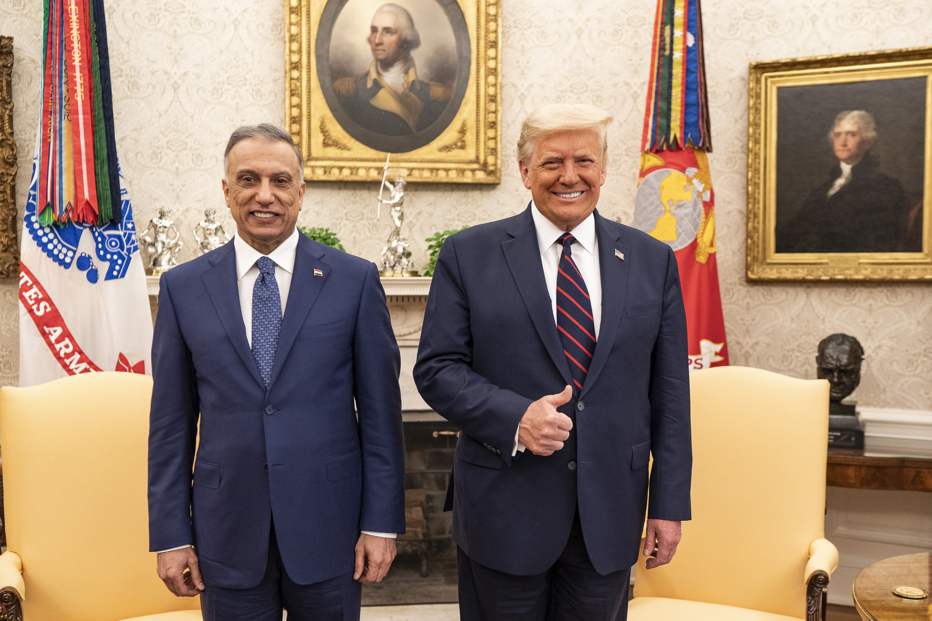 President Donald J. Trump, joined by Vice President Mike Pence, participates in a bilateral meeting with Prime Minister Mustafa Al-Kadhimi of the Republic Iraq Thursday, Aug. 20, 2020, in the Oval Office of the White House. (Official White House Photo by Shealah Craighead)